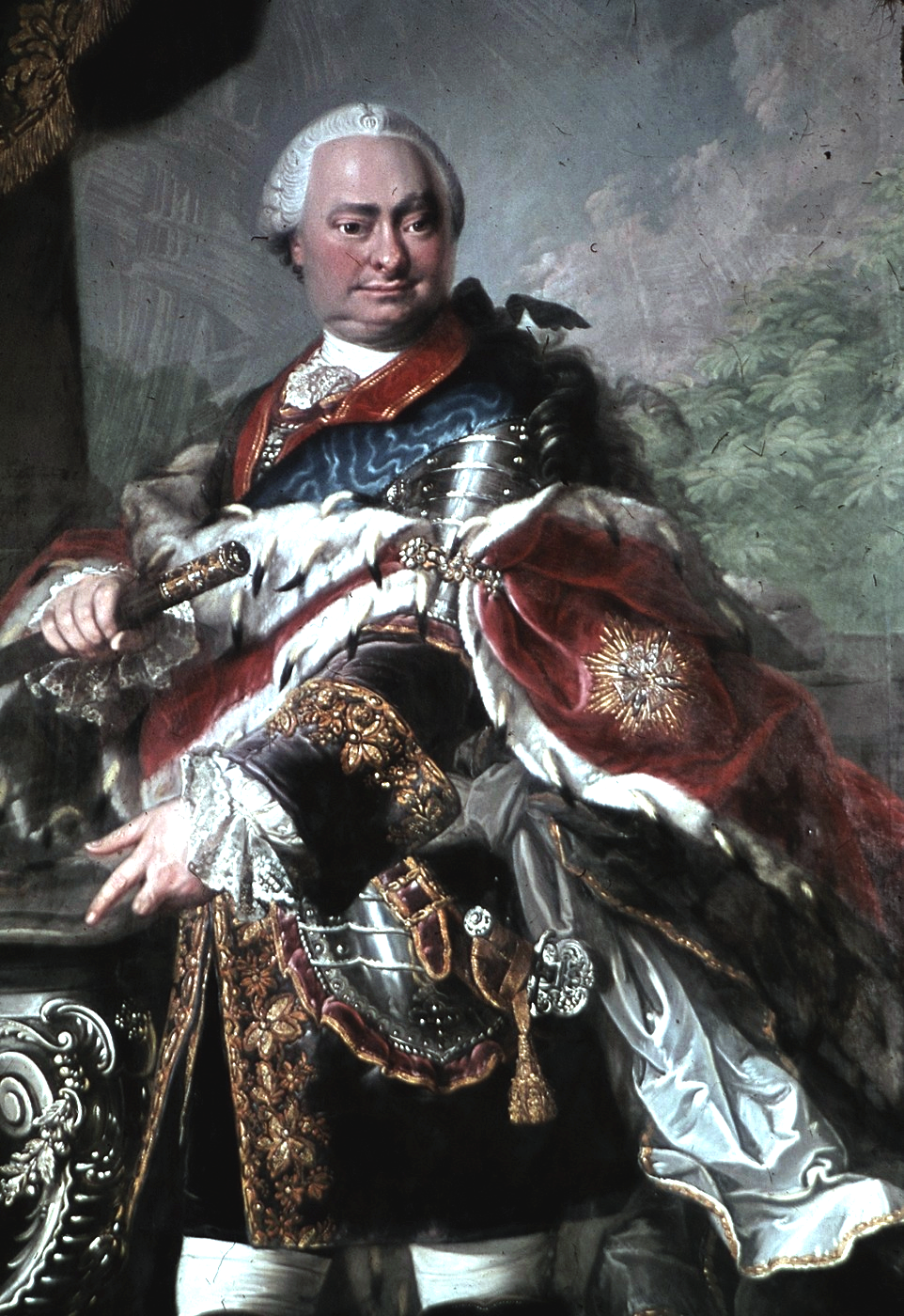 Portrait of John Frederick, Prince of Schwarzburg-Rudolstadt (1721-1767)